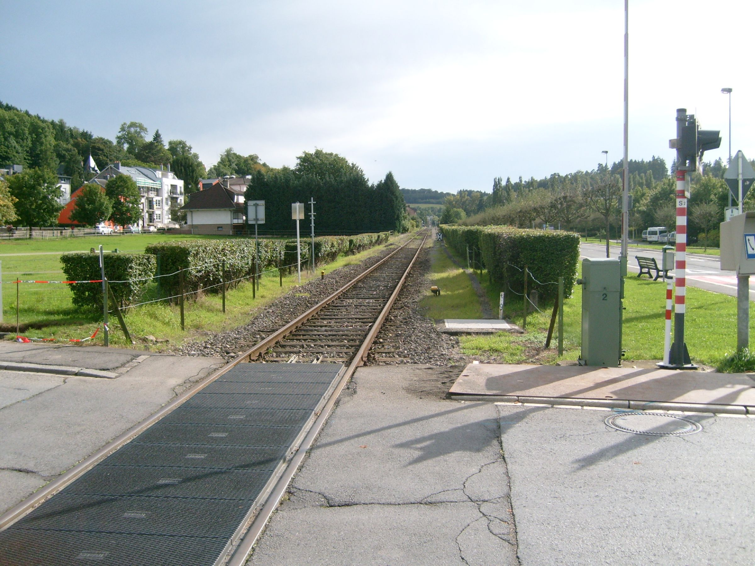 The railway sideline in Colmar-Berg, Luxembourg.